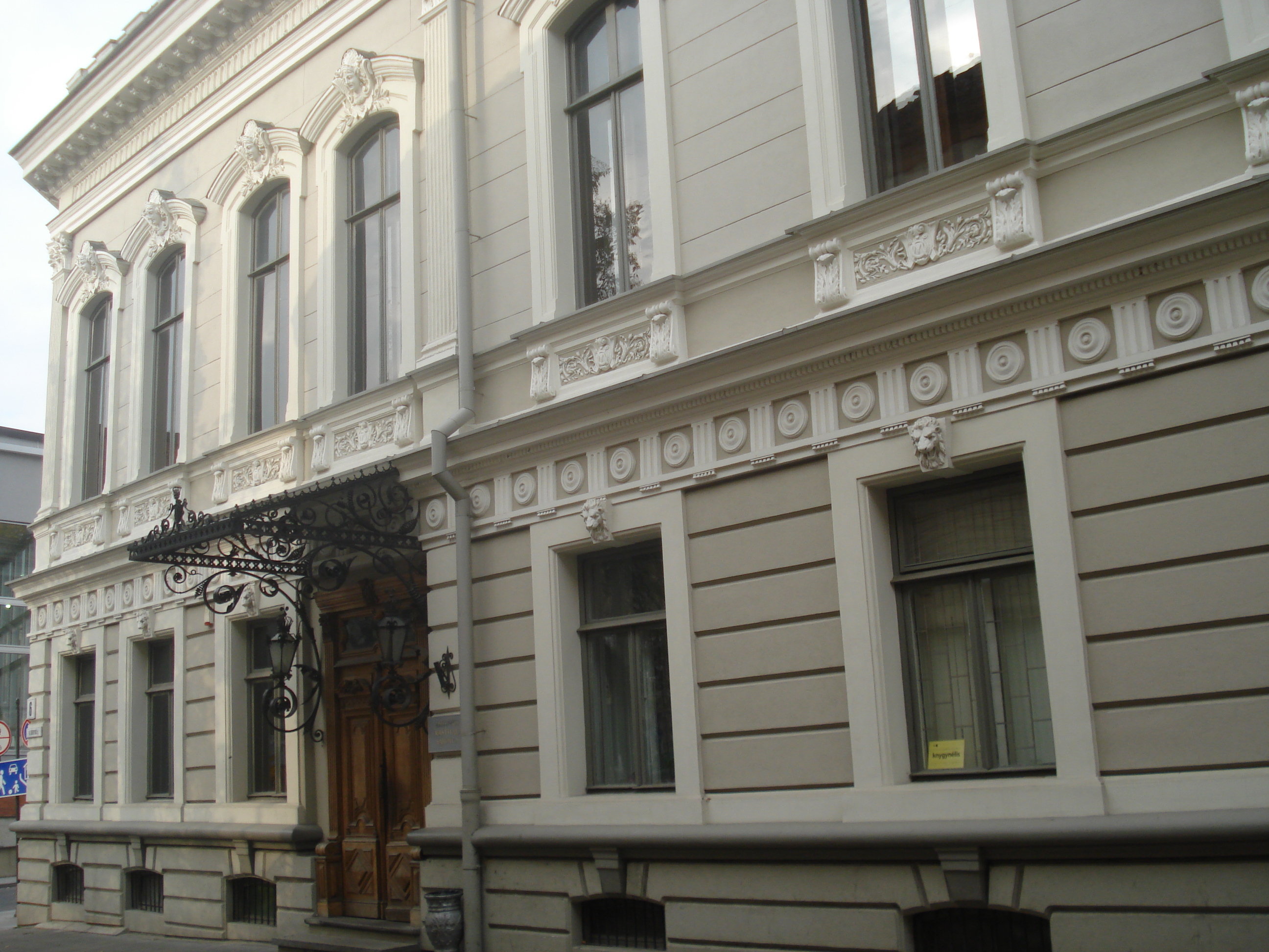 The headquarters of the Lithuanian Writers Union in Vilnius. K. Sirvydo street 6